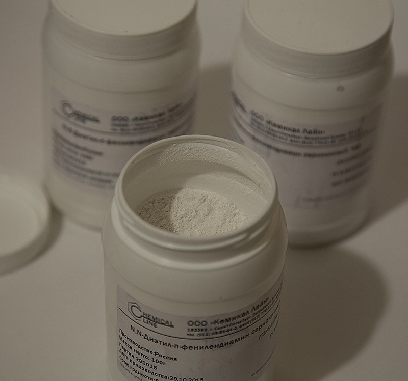 Fresh N,N-diethyl-p-phenylenediamine sulfate